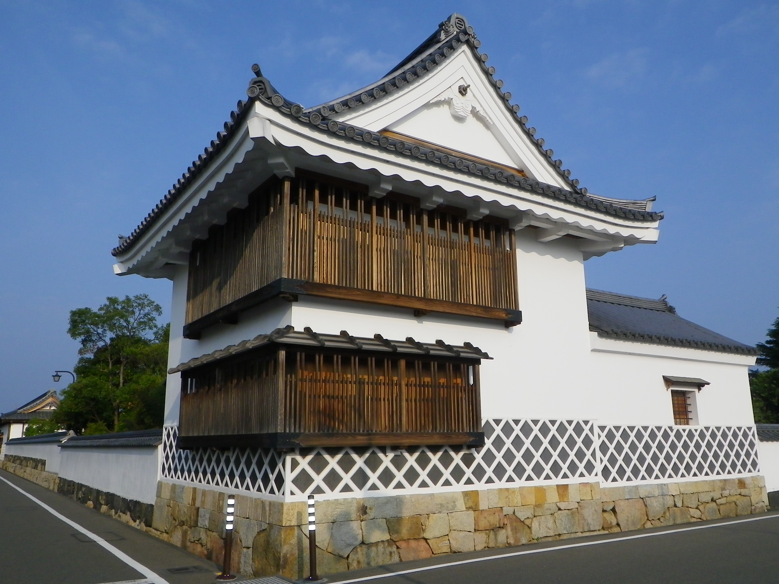 Hagi museum